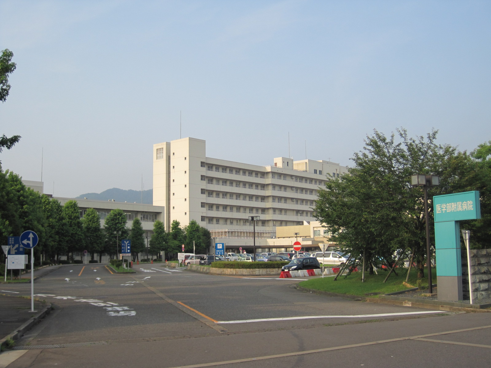 University of Fukui hospital (Eiheiji town, Fukui prefecture, Japan)